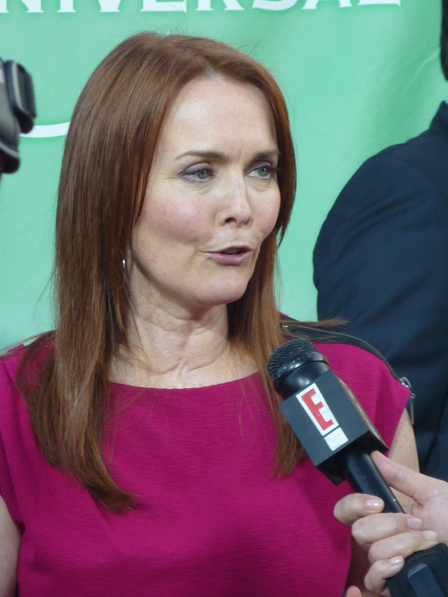 Actress Laura Innes at Showtime's 2010 Summer TCA.